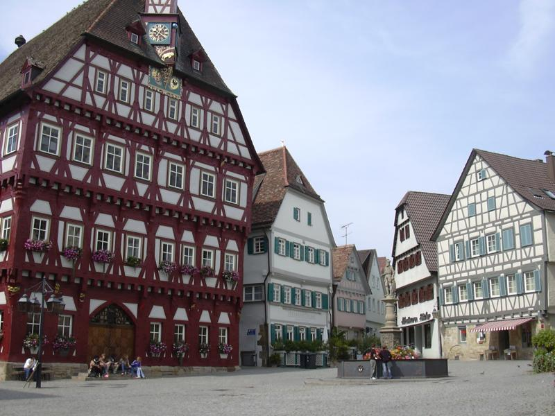 Market place and town hall of Markgröningen, Germany